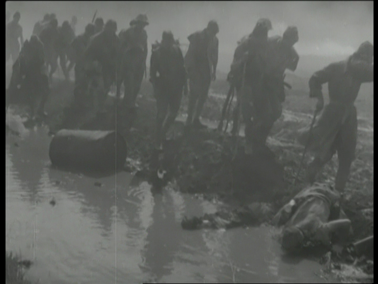 Japanese soldiers. Screenshot of 1950 Japanese film Listen to the Voices of the Sea (日本戦歿学生の手記 きけ、わだつみの声 ,Nippon senbotsu gakusei shuki: Kike wadatsumi no koe).